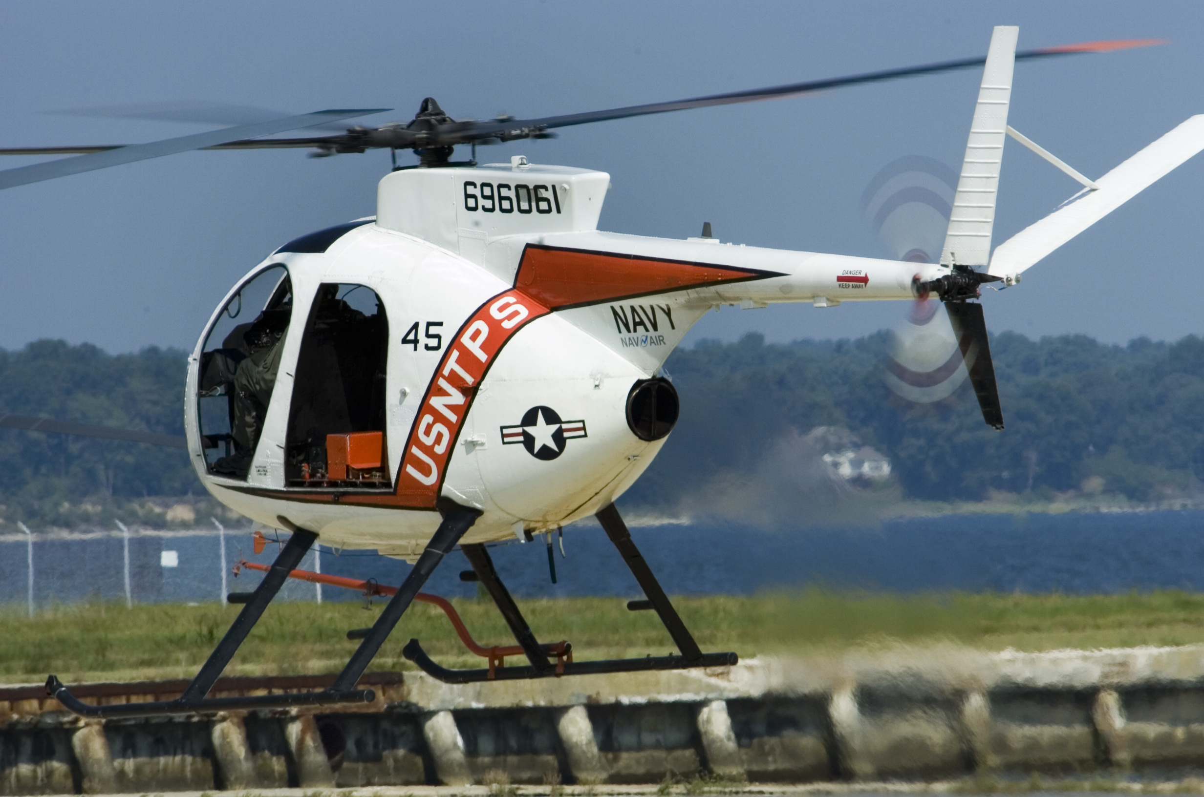 A U.S. Navy TH-6B Cayuse helicopter, assigned to the U.S. Naval Test Pilot School, takes off for a training flight from Naval Air Station Patuxent River, Maryland (USA). The United States Naval Test Pilot School (USNTPS) provides instruction to experienced pilots, flight officers, and engineers in the processes and techniques of aircraft and systems test and evaluation. The school investigates and develops new flight test techniques, publishes manuals for use of the aviation test community for standardization of flight test techniques and project reporting, and conducts special projects. USNTPS operates approximately 50 aircraft of 13 types. Note that the helicopter was not assigned a regular U.S. Navy Bureau Number (BuNo) but kept its U.S. Army serial 69-16061 (displayed as "696061").